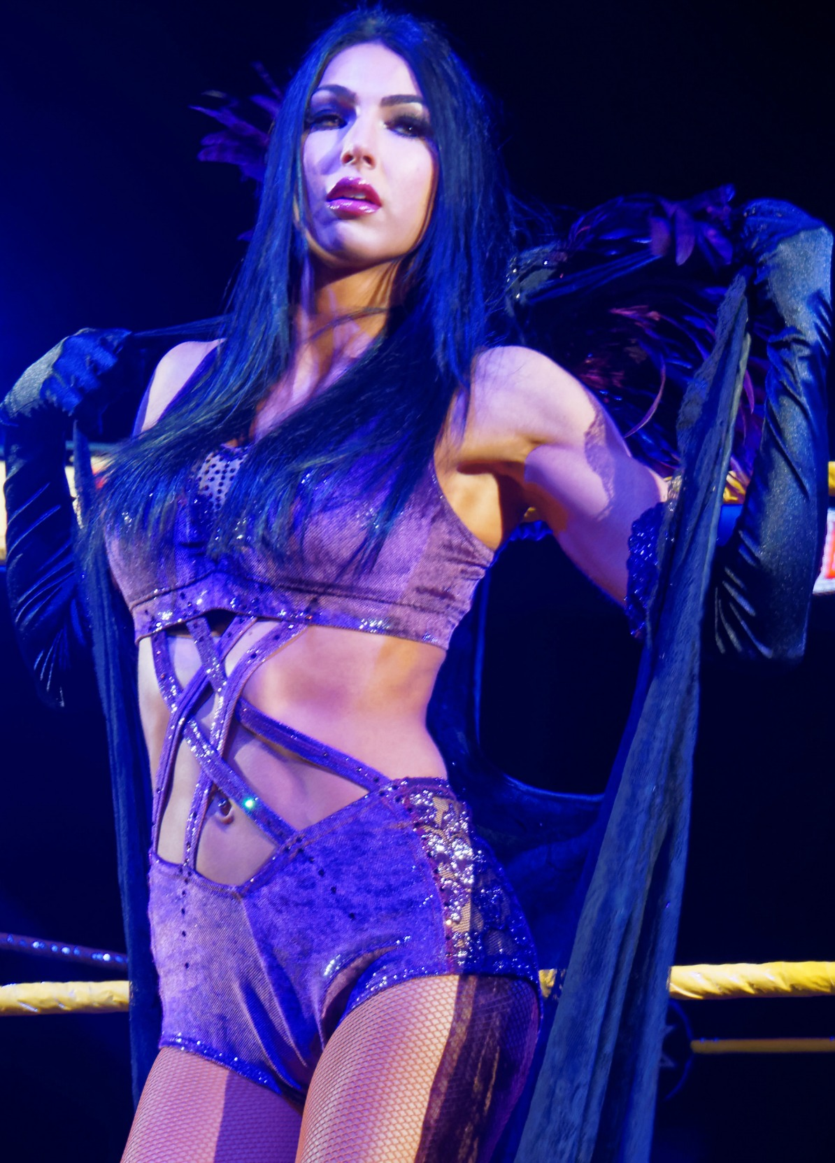 Billie Kay posing during the WrestleMania 32 Axxess on April 1, 2016.